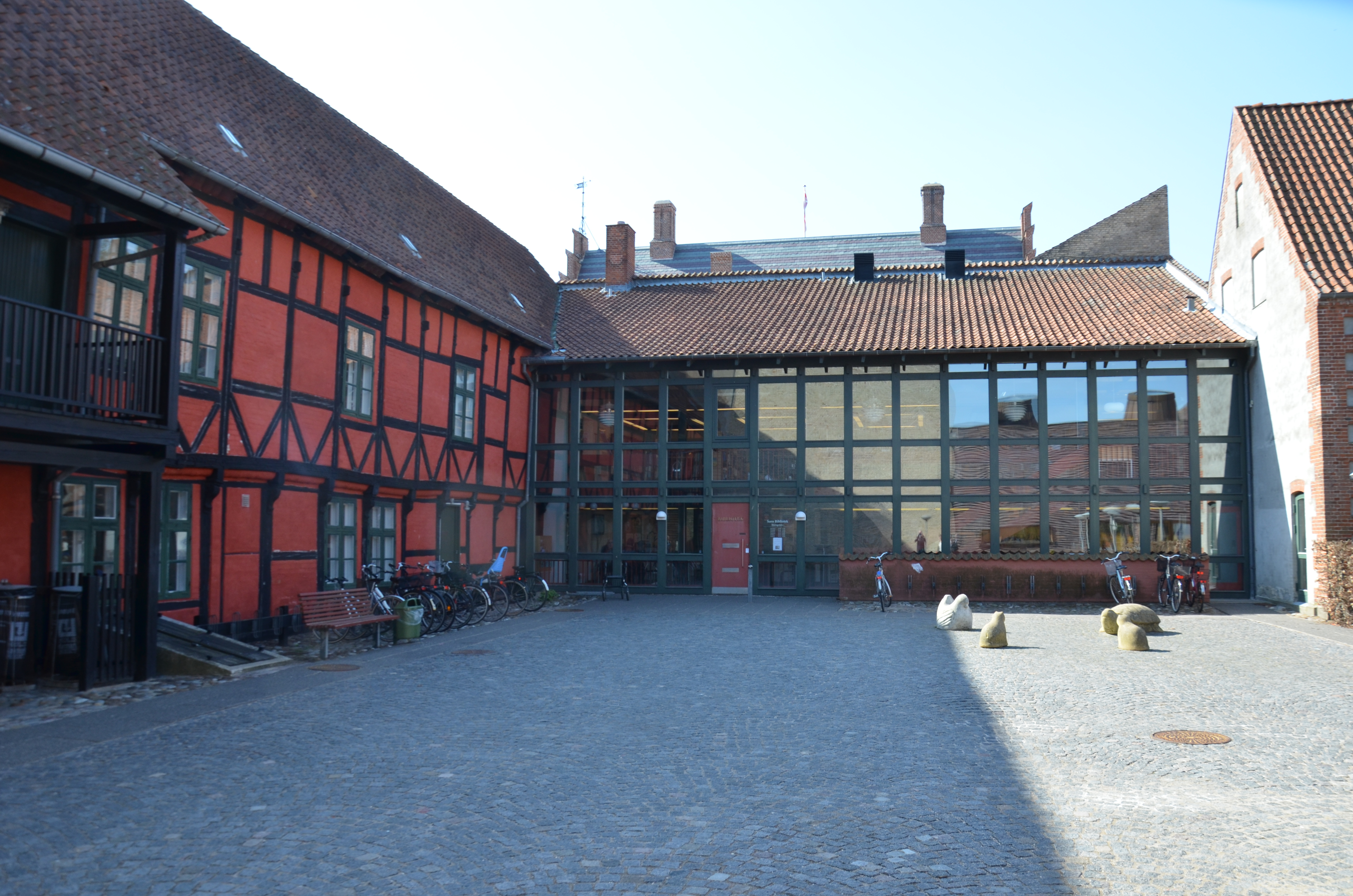 The public library in Sorø, Denmark